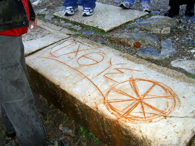 An early Christian ichthys symbol carved into some marble in the ruins of Ephesus, Turkey.